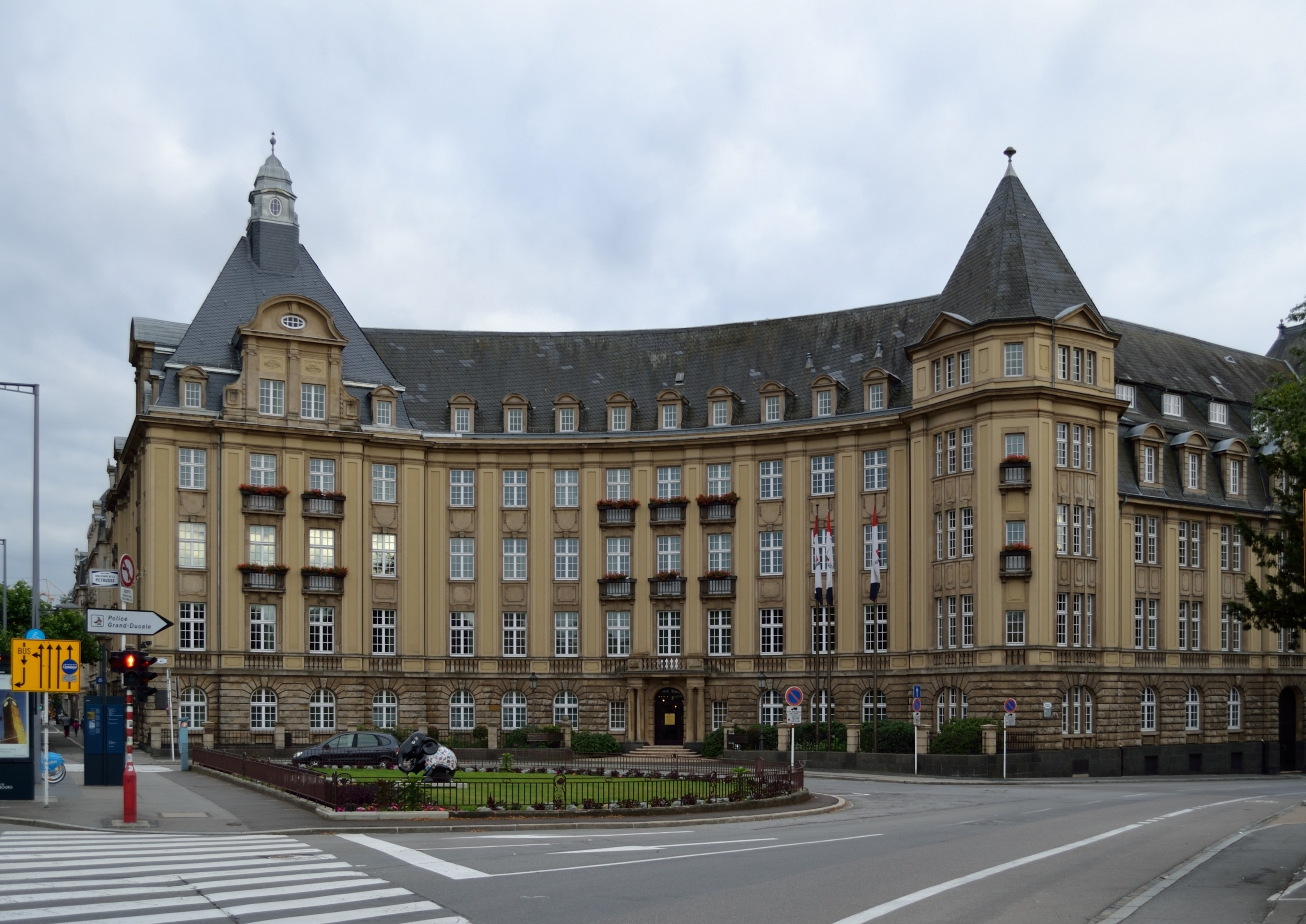 Headquarters of the Banque et caisse d'épargne de l'Etat at Place de Metz, Luxembourg